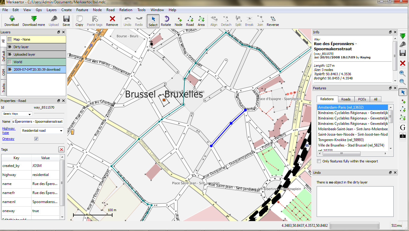 A screenshot of Merkaartor showing part of Brussels